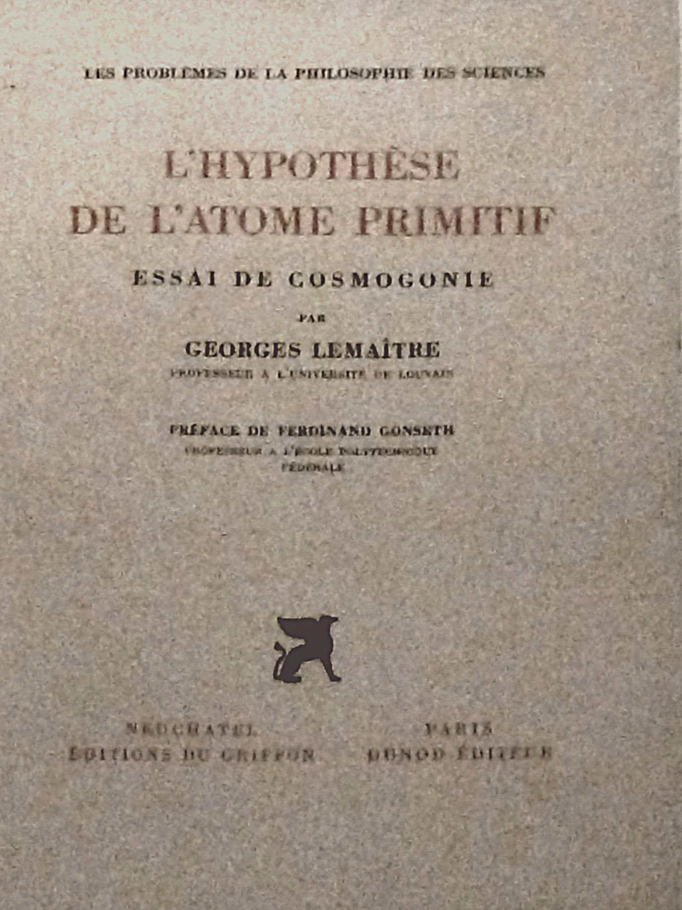 L'Hypothèse de l'Atome primitif (The Primeval Atom – an Essay on Cosmogony); Georges Lemaître (1946); collection of the Musée L, Ottignies-Louvain-la-Neuve; Belgium